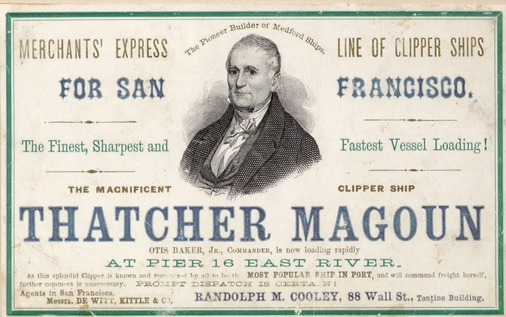 Sailing card for the clipper ship Thatcher Magoun.